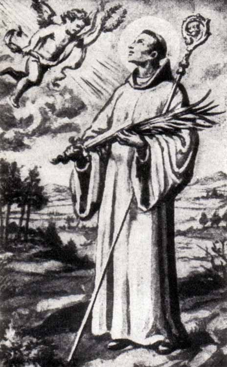 Gerard of Clairvaux, sixth abbot of Clairvaux, killed by a rebellious monk about 1177